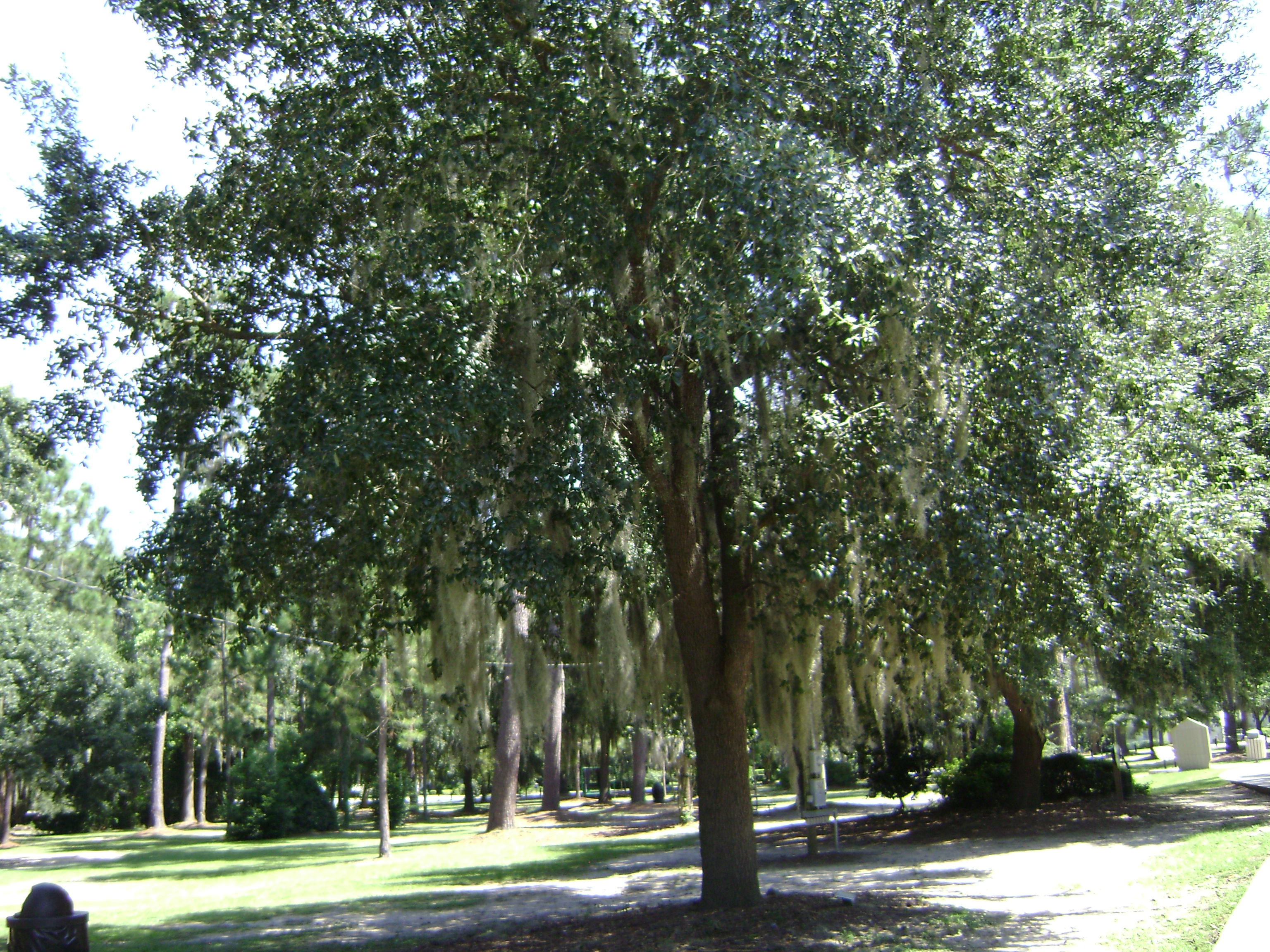 Tree in Drexel Park, Valdosta, Lowndes County, Georgia